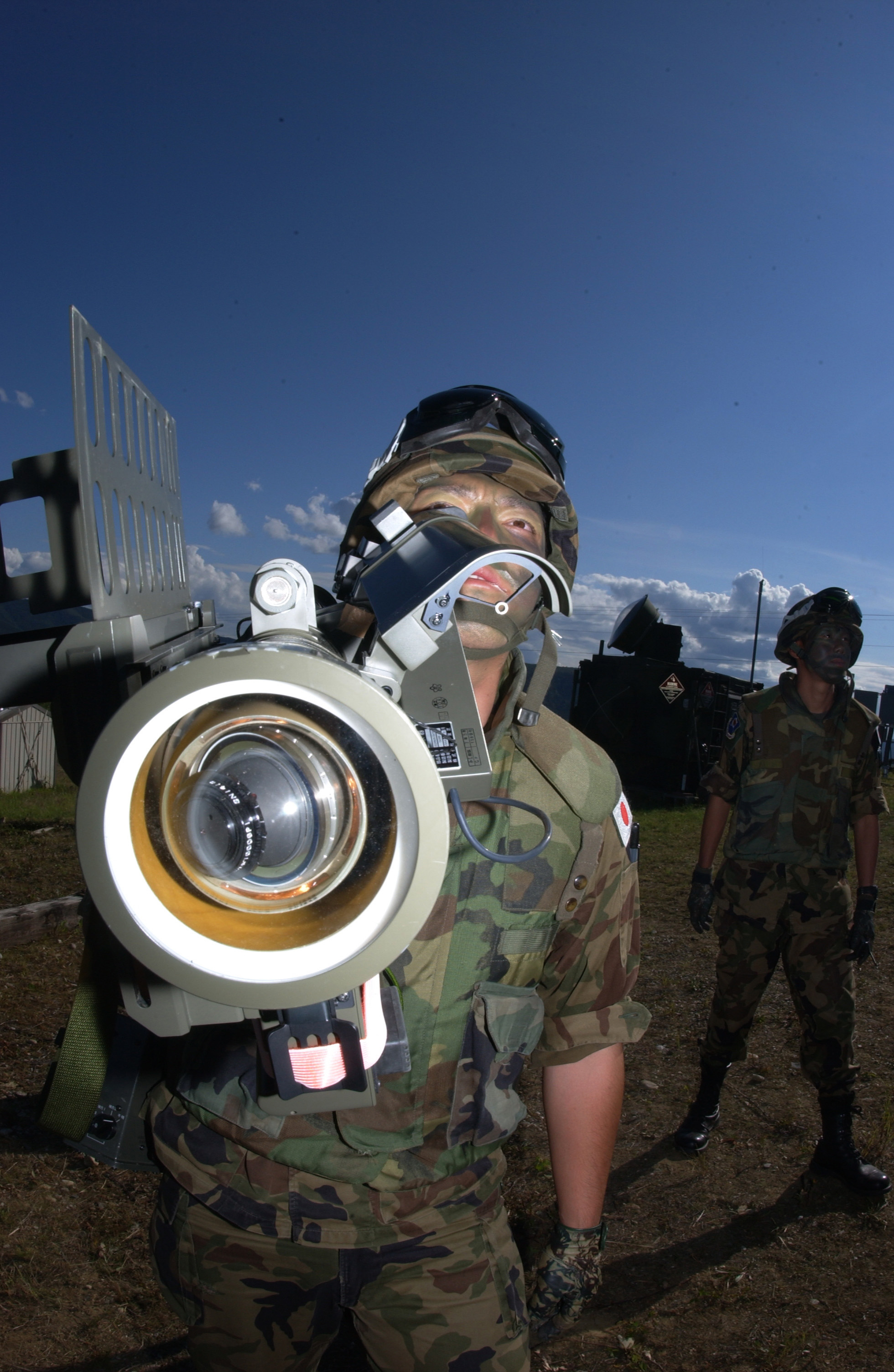 Staff Sgt. Kenichira Watanabe, missile operator, Japanese Air Self Defense Force, uses a Type 91 Sam-2 Surface to Air missile launcher to take out enemy aircraft on the Pacific Alaskan Range Complex during Red Flag-Alaska 07-3 July 24. With 67,000 square miles of rugged terrain, Japanese Forces are able to train tracking low flying aircrafts against a mountain back drop; this type of training is unavailable to them at their home station.